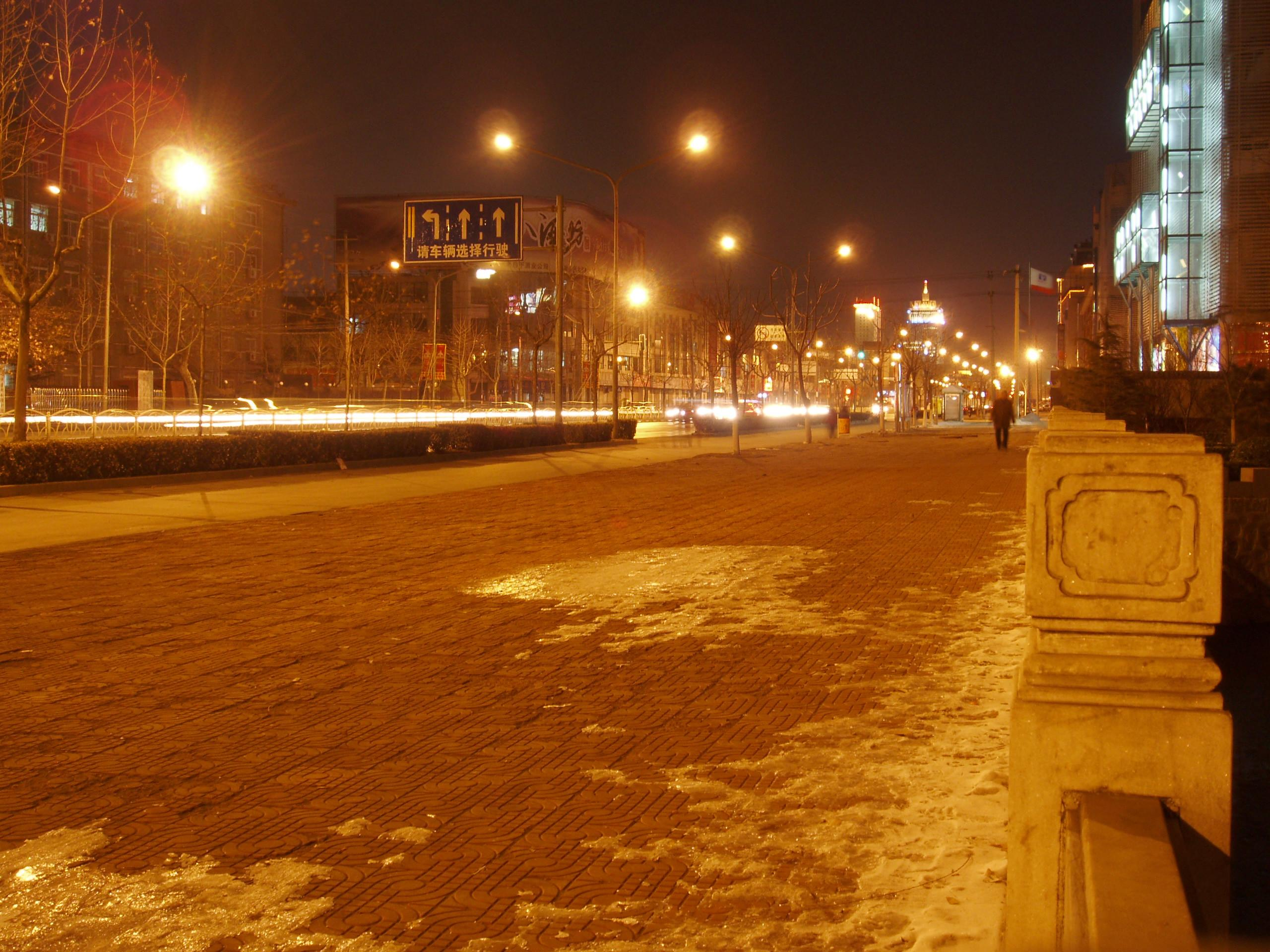 Chinese city shijiazhuang shot.